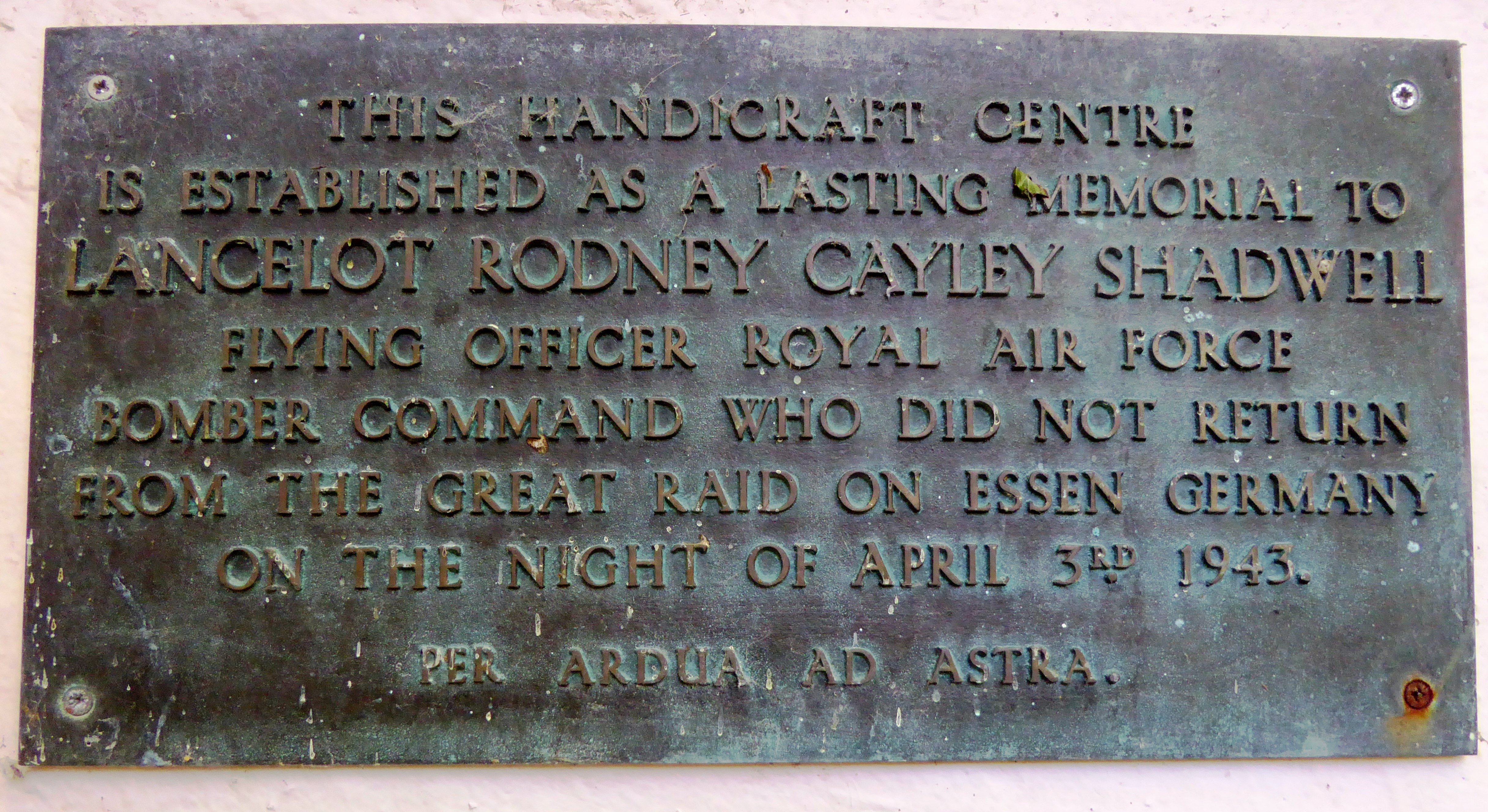 Bronze plaque dedicated to the memory of RAF Flying Officer Lancelot Rodney Cayley Shadwell (1912-1943). Former Handicraft Centre, Kingston Deverill. Courtesy of Alison Cameron and Julian Wiltshire.